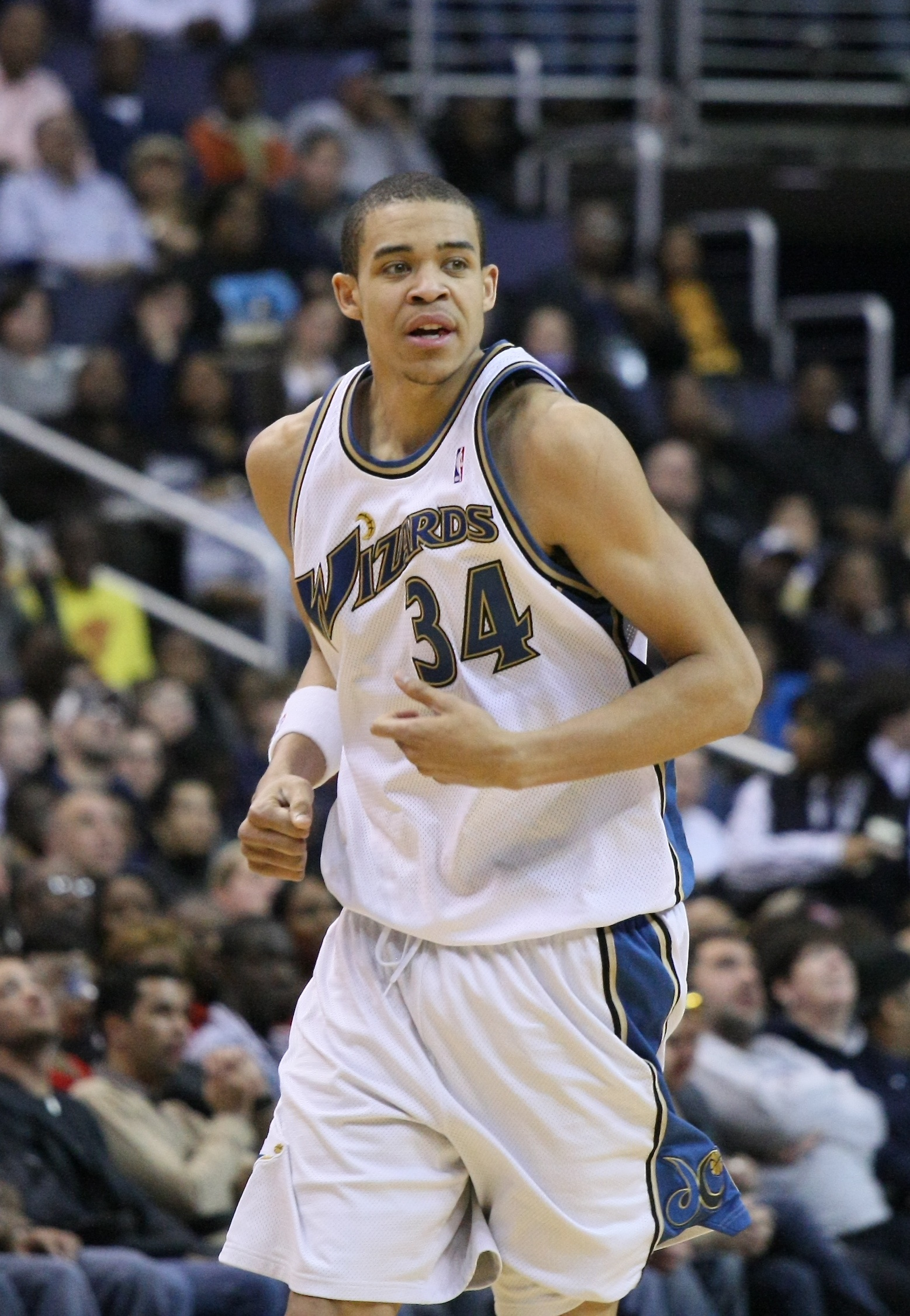 JaVale McGee, American basketball player for the Washington Wizards